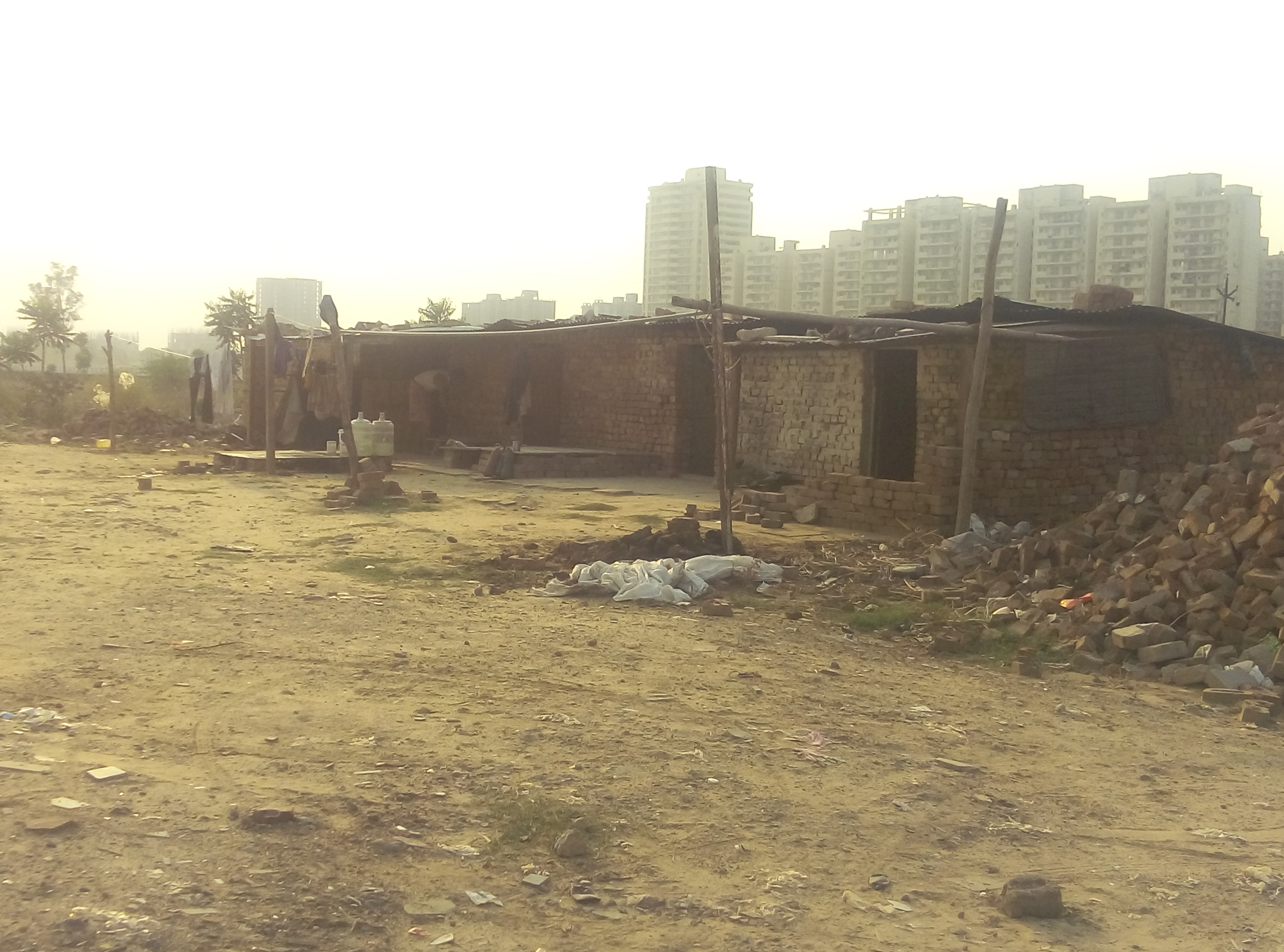 in hindi we call it as a basti